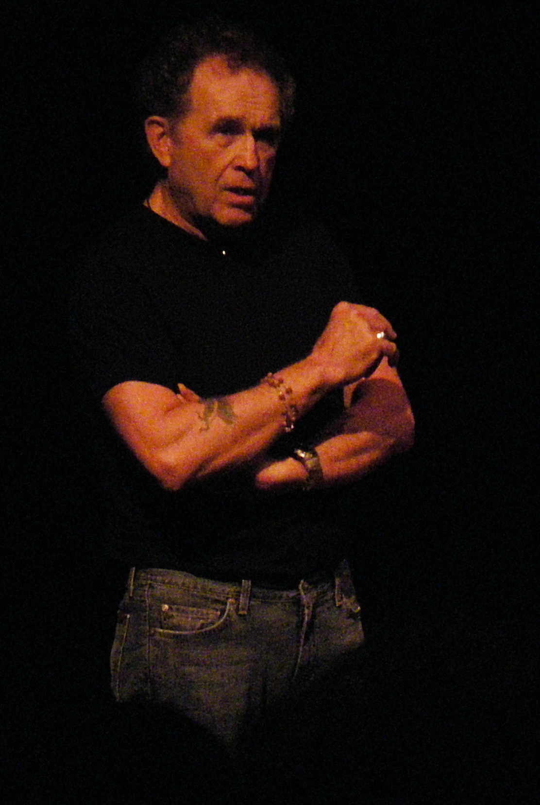 Author Darryl Ponicsan (The Last Detail, Cinderella Liberty) attends a 2008 showing of the 1973 film of his 1971 novel The Last Detail at Northwest Film Forum, Seattle, Washington.